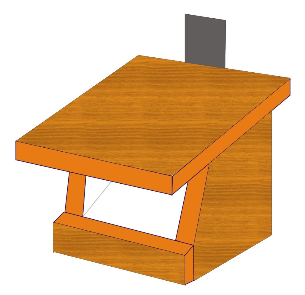 Open-fronted nestbox based on project of Jan Sokołowski, Polish ornithologist